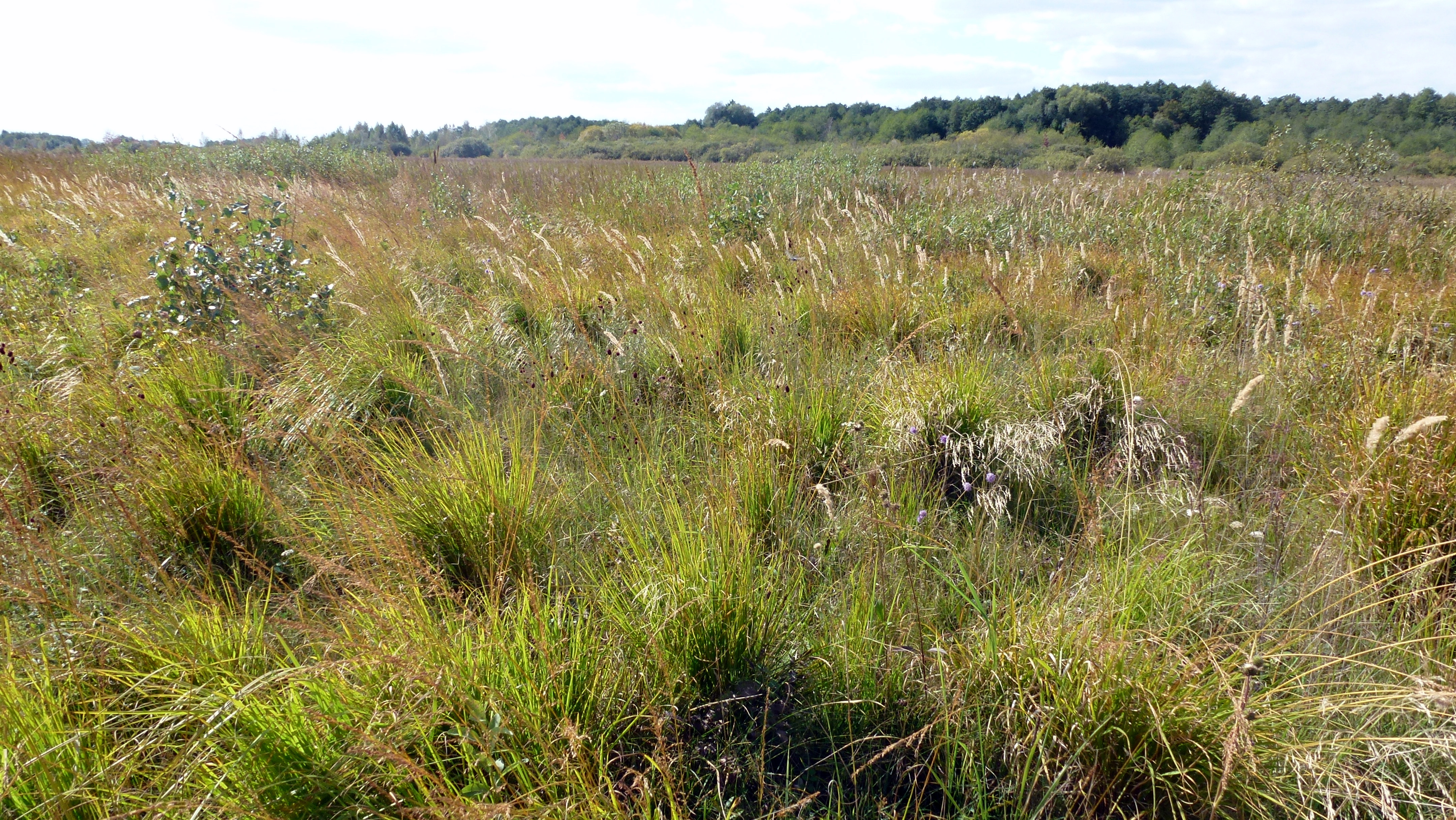 Bagno Serebryskie nature reserve, Poland